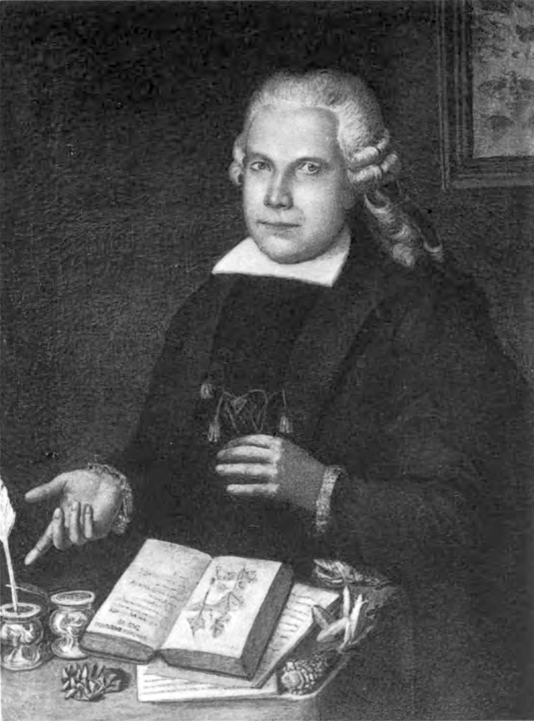 Giovanni Antonio Scopoli (1723–1788), Italian-Austrian physician, mineral collector and botanist